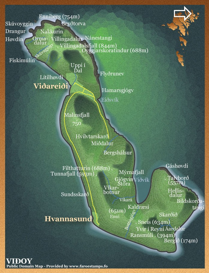 Viðoy, Faroe Islands